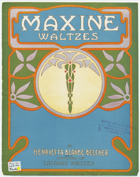 The sheet music for Henriette Blanke-Belcher's "Maxine Waltzes" (1910); cover is a symmetrical art nouveau design, with a yellow circle in the center and the title above that in a blue box.